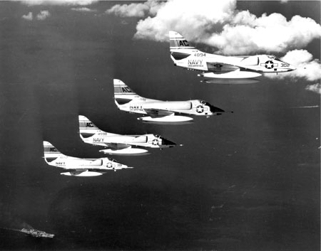 Four Douglas A4D-2 Skyhawk (BuNo 144894 in front) from Attack Squadron 34 (VA-34) "Blue Blasters" in flight. VA-34 Det.45 was assigned to Carrier Anti-Submarine Air Group 60 (CVSG-60) aboard the aircraft carrier USS Essex (CVS-9) for a short deployment to the Caribbean from 3 to 29 April 1961. The aircraft flew sorties over combat areas during the Bay of Pigs Invasion, Cuba, on 17–19 April 1961.